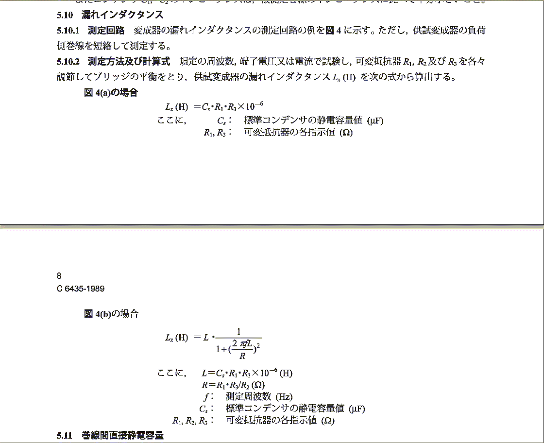 JIS C6435 is a Japanese industrial standard, which is Japanese Government publications.